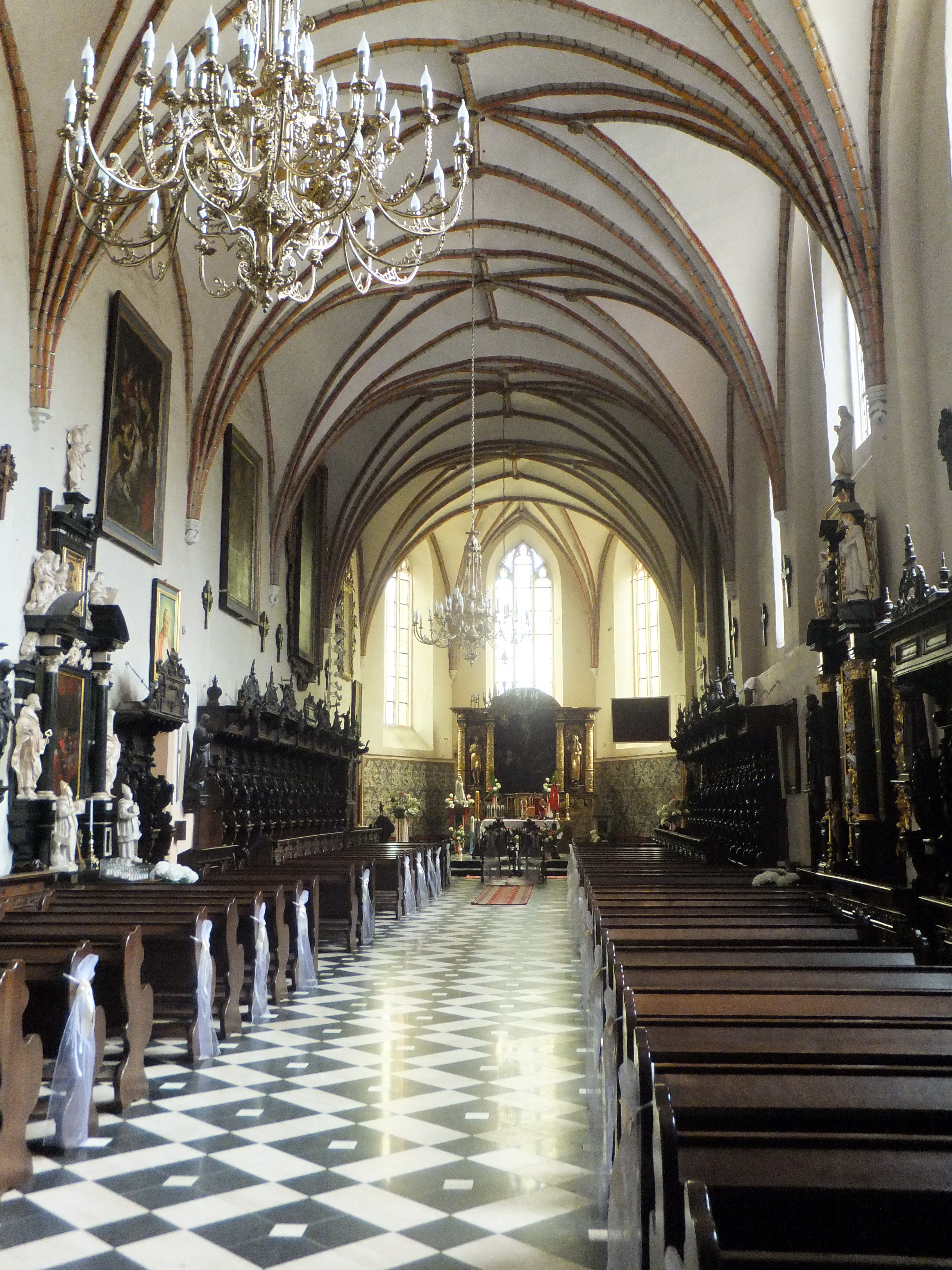 Collegiate Church of the Assumption of the Blessed Virgin Mary in Kartuzy - interior view of the altar